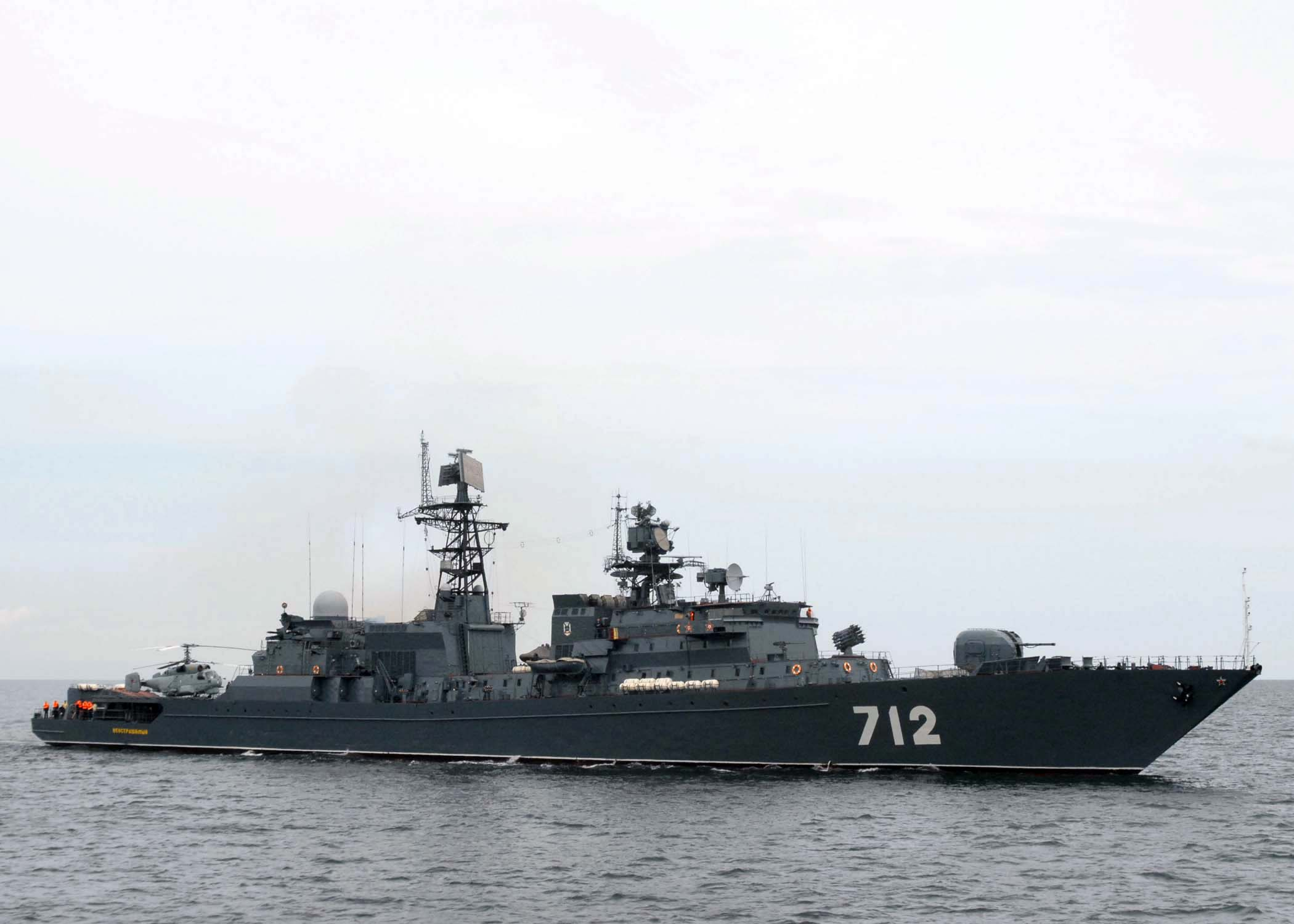 The Russian frigate RFS Neutrashimyy (FF 712) steams along side the guided-missile cruiser USS Gettysburg (CG 64) while preparing to welcome aboard Adm. Dan Holloway, commander, Carrier Strike Group 12 Rear and other officers. The Gettysburg is supporting Baltic Operations (BALTOPS), an annual international exercise involving 13 countries.